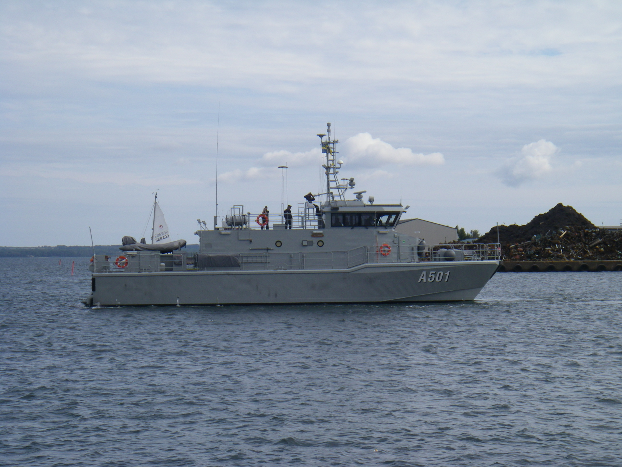 Swedish training vessel HMS Altair in Kalmar, August 2008